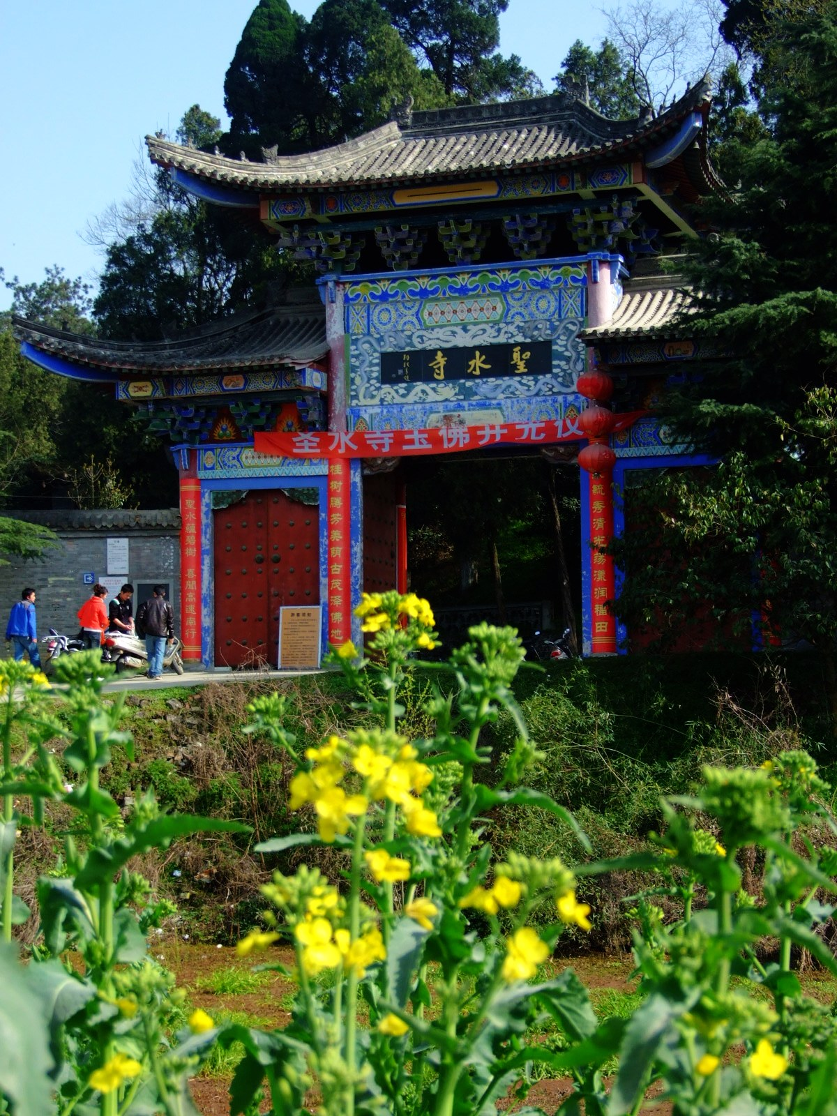 Shengshui temple in Hanzhong,Shannxi,China